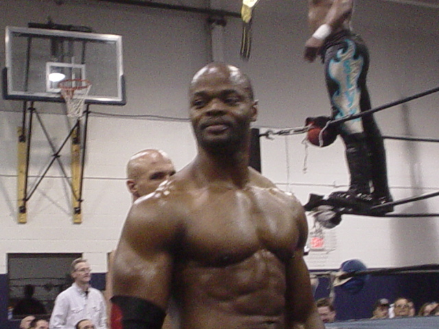 Professional wrestler "Primetime" Elix Skipper at an NWA Cyberspace show in 2005